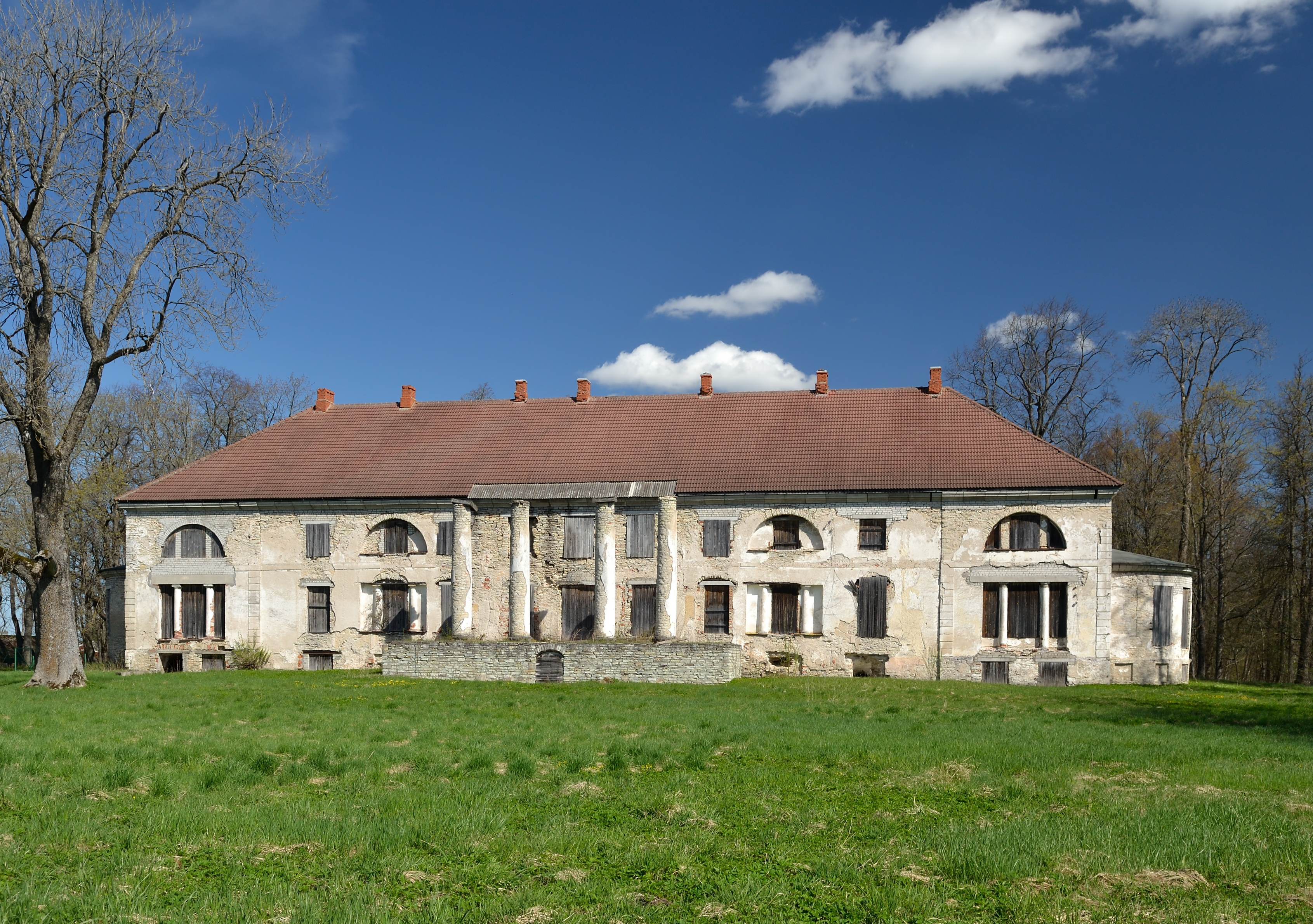 Mäo manor main building